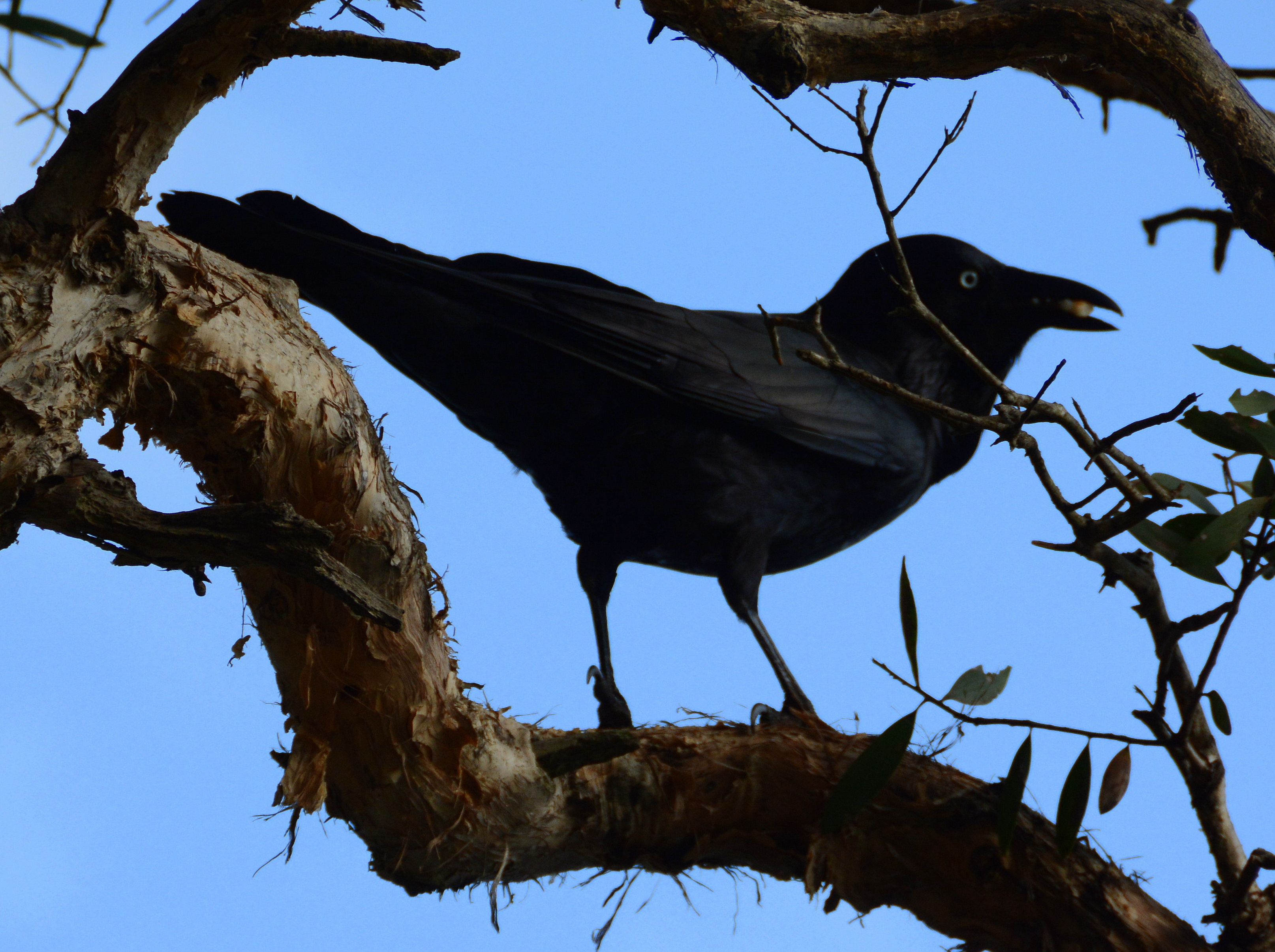 Little raven, Centennial Park, Sydney